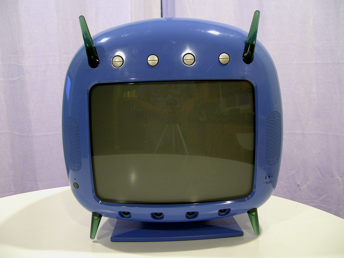 The Fuji Divers 2000 series CX-1 Dreamcast Article